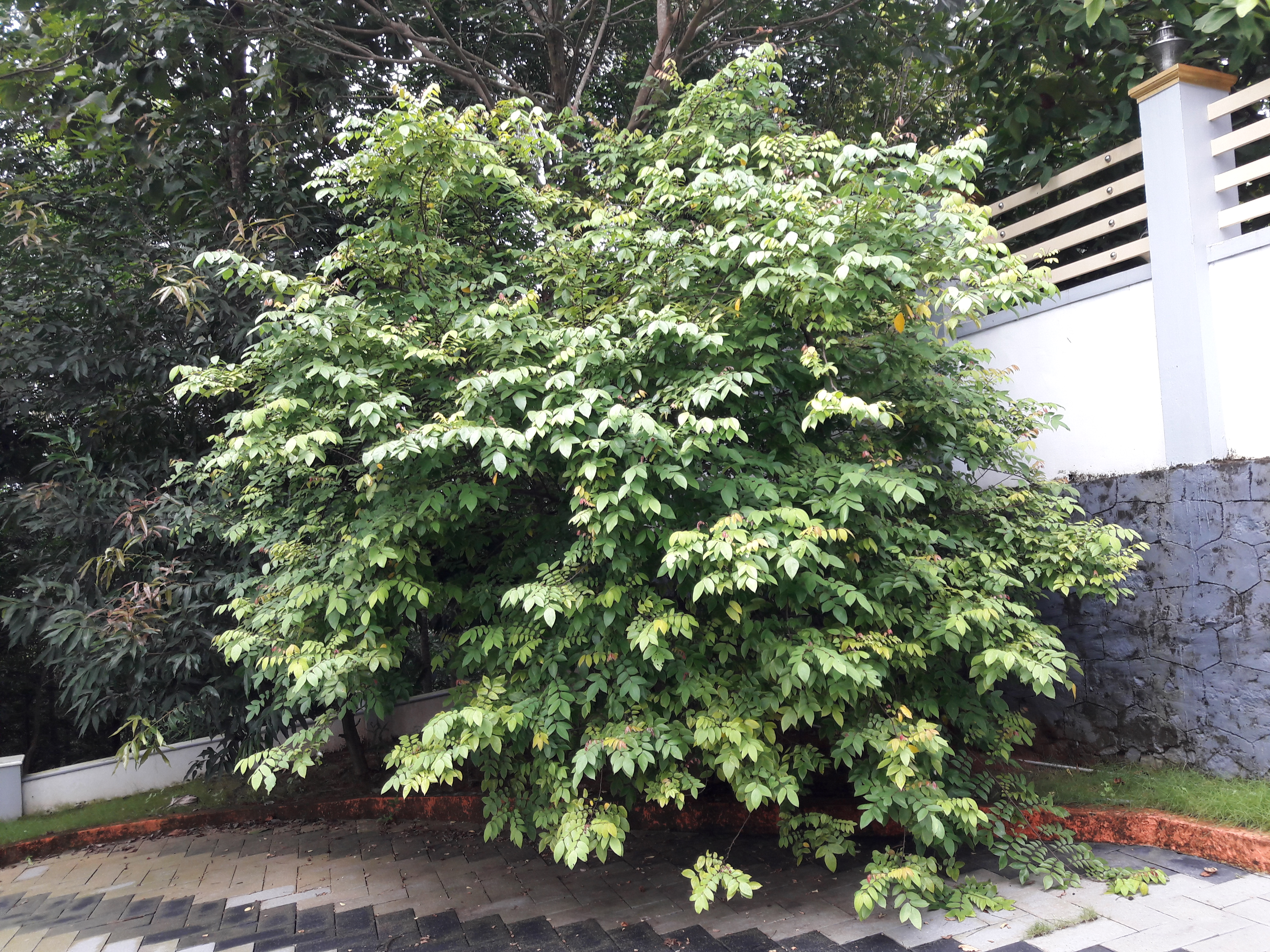 Carambola before pruning.Scientific name Averrhoa carambola family Oxalidaceae.